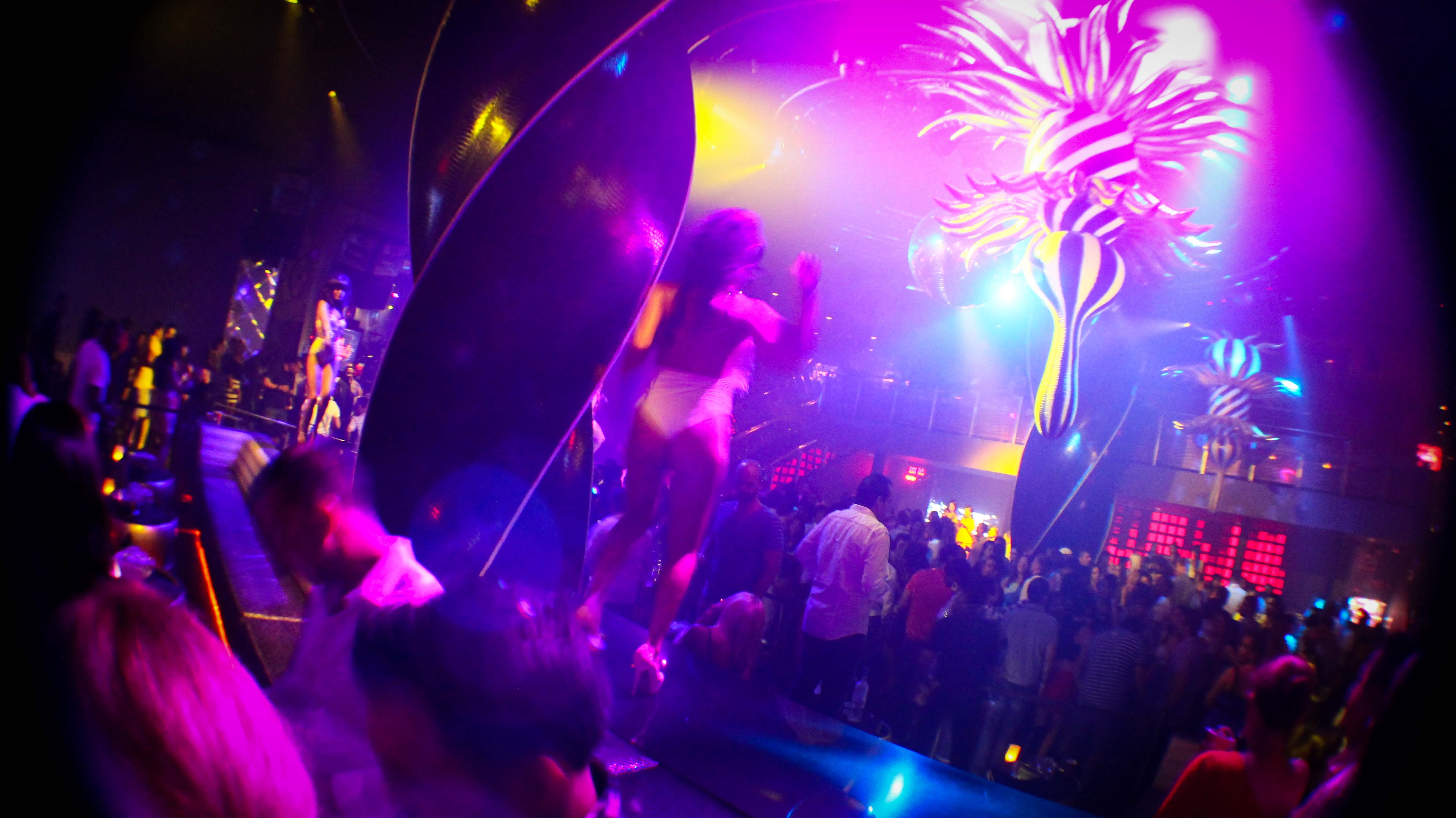 Latin Music Tours 2013 (31) - Hard Rock Cafe Punta Cana, 2013-08-16 “ Latin Music Tours 2013 Punta Cana : Hard Rock Hotel & Casino Hard Rock Cafe Hotel & Casino Punta Cana presents the Latin Music Tours 2013. Live presentations of Gilberto Santa Rosa, Eddy Herrera, Frank Reyes, Miriam Cruz, Los Teke Teke, Yiyo Sarante, Tueska, DJ Kriss and more. ...”